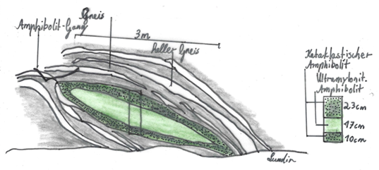 Big boudin (ca. 3x0.5 m), found at 41°21'55.5"N 26°03'26.8"E in the Rhodope Mountains. The boudin was formed in amphibolite facies, with a cataclastic amphibolitic rim, which seperates the uncatalastic boudin from the leucocratic gneiss. The gneiss is also deformed by tectonic extension.